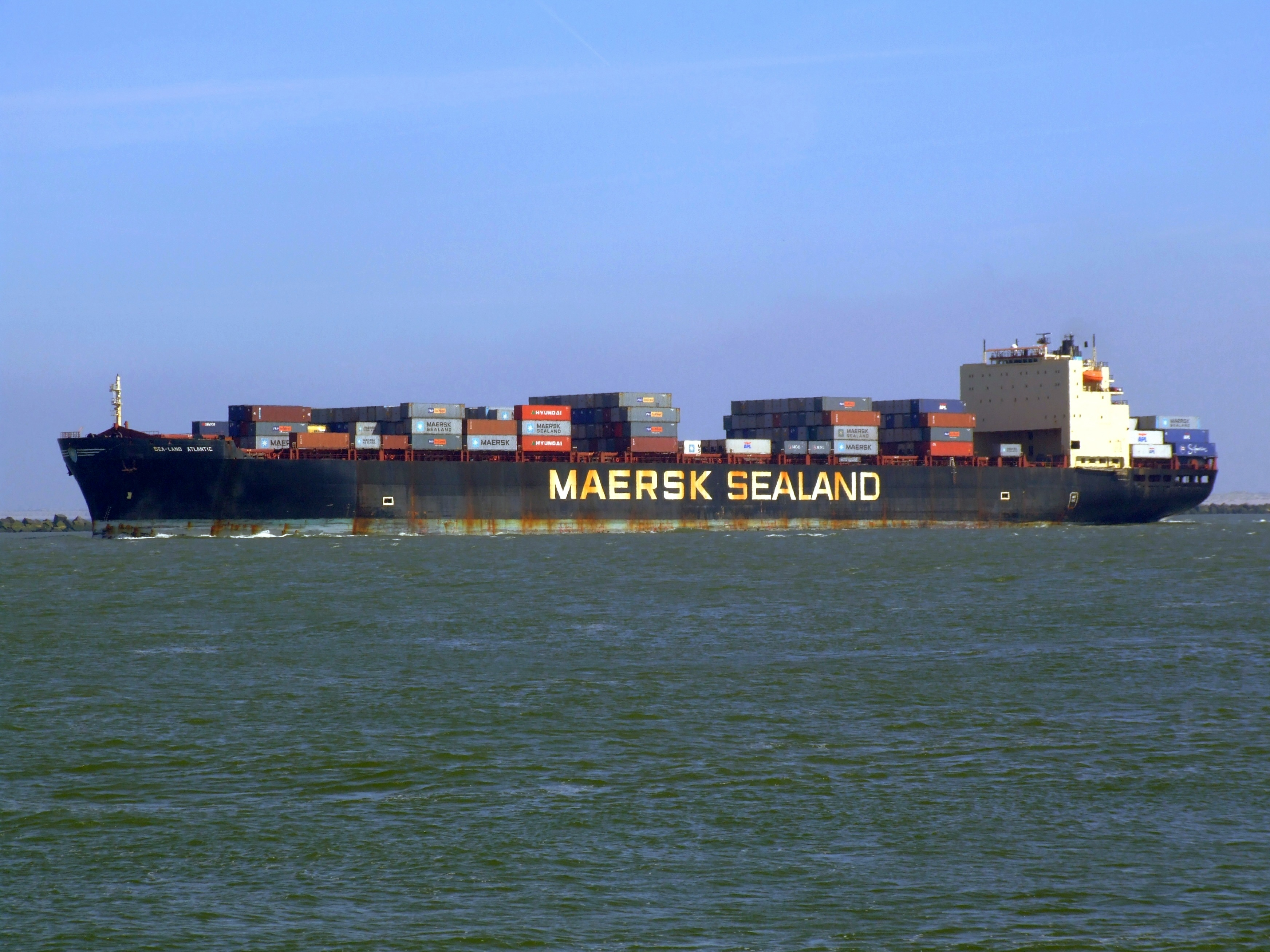 Sea-land Atlantic IMO 8212685 Port of Rotterdam 08-Apr-2007.